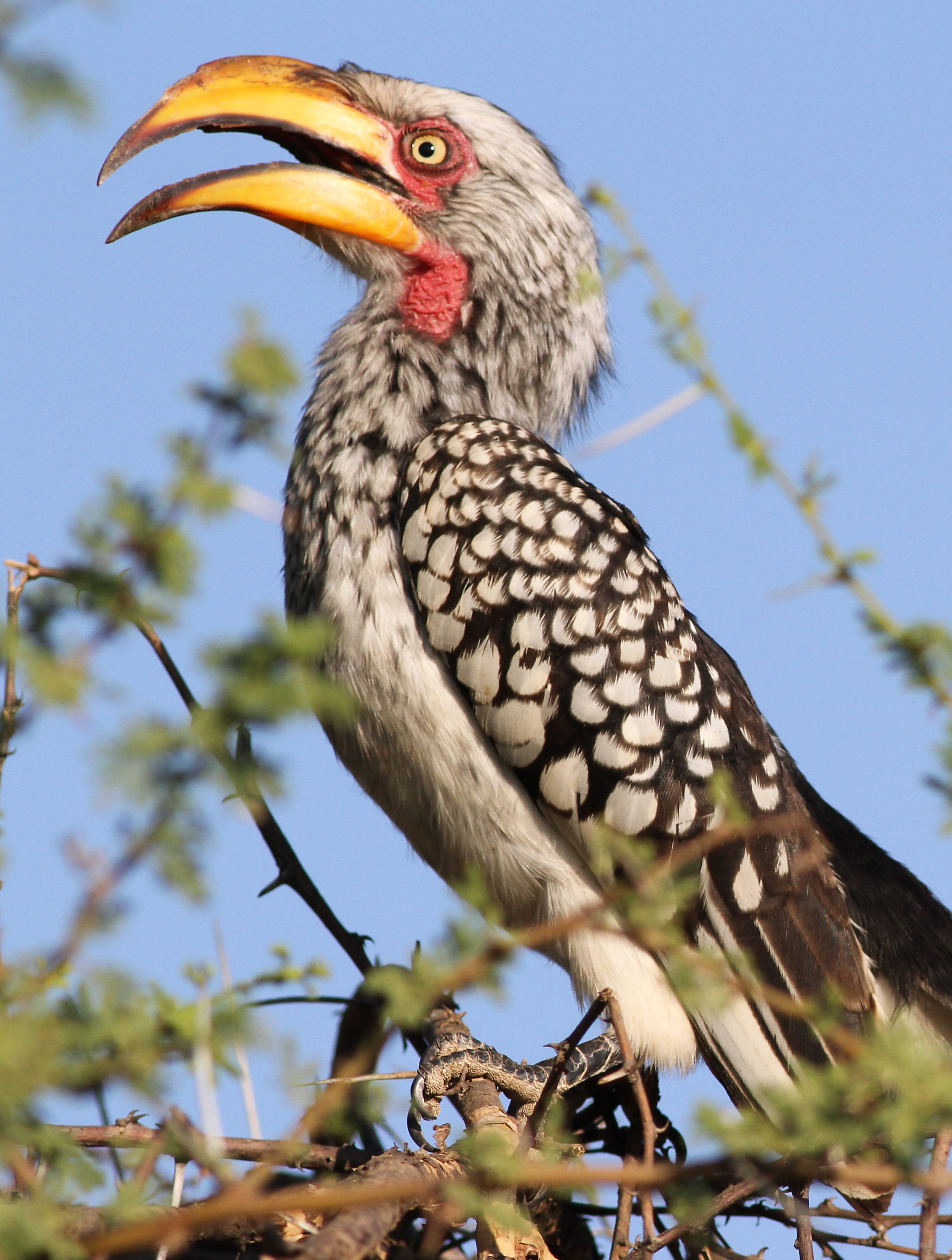 Southern Yellow-billed Hornbill, Tockus leucomelas at Mapungubwe National Park, Limpopo, South Africa